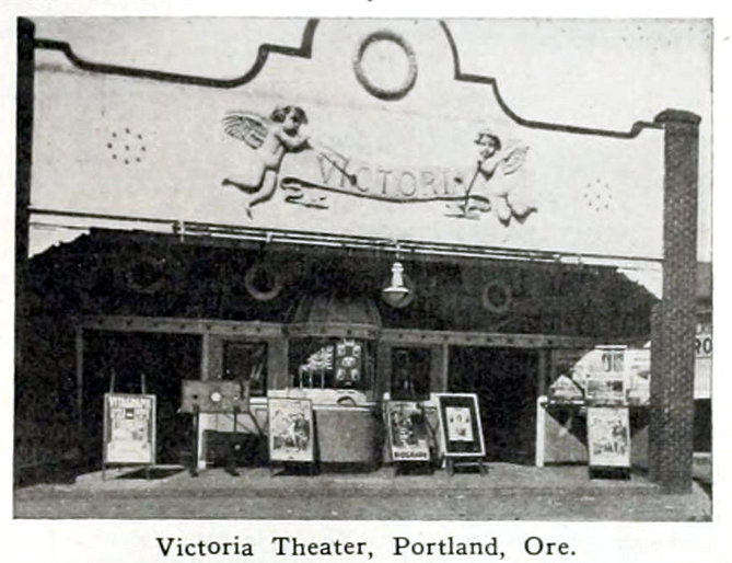 Opened in 1911 by Edwin Dawson. He sold it to Bock & Gellerman, who ran it for six months before selling it to Martin B. Donovan. Mr Donovan sold it to J.B. Washtock in 1914, who was still operating it in 1916 in partnership with his wife. The Victoria was a brick building that seated 400 and had 2 Power's projection machines.